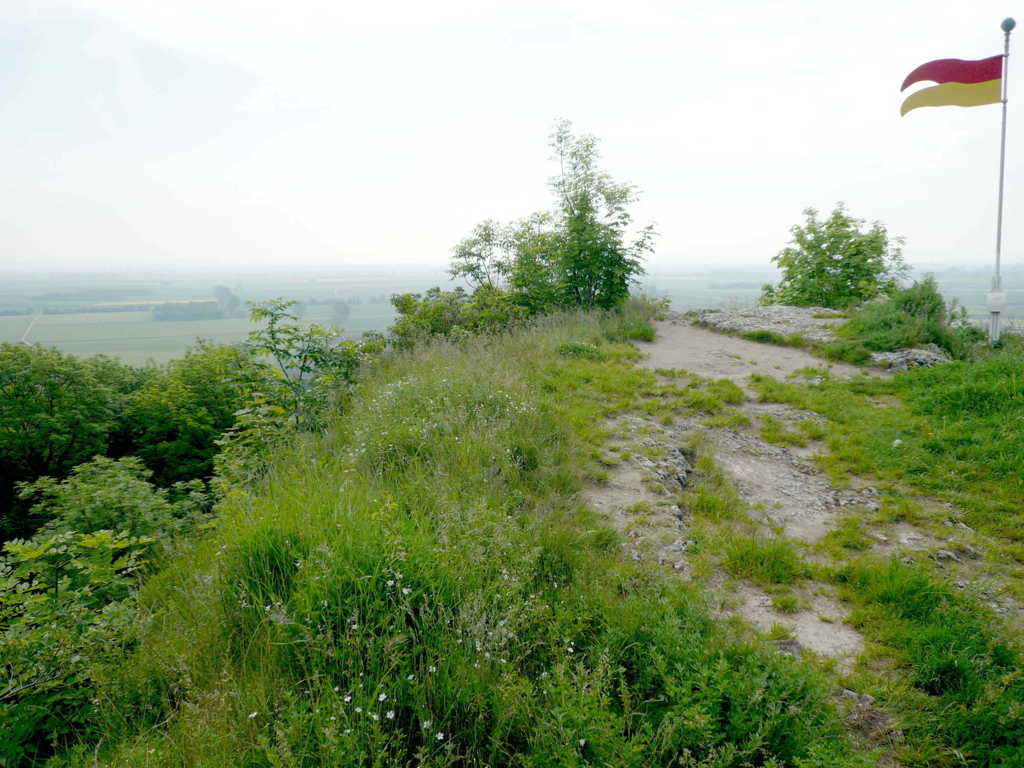 On top of the rock of Wallerstein, Bavaria